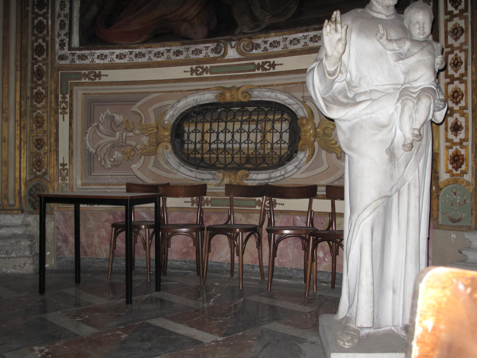 Wall with the Urn containing the Relics of Saint Datium (Dacium) bishop of Milan - San Vittore al Corpo (Milan) - interior - Left Transept.